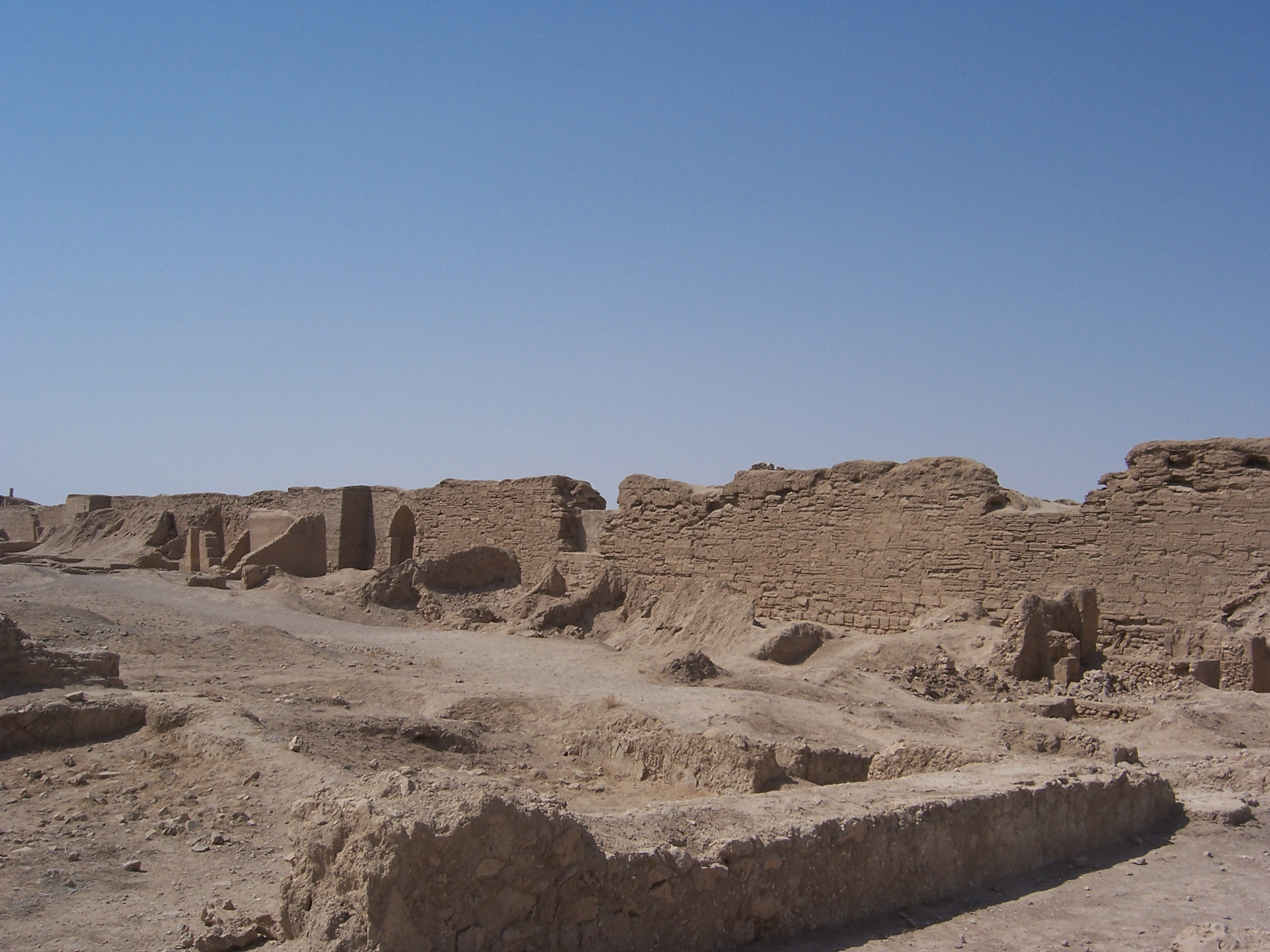 AWIB-ISAW: Buildings and Streets at Dura-Europus, Syria. (I) View of remains of buildings at Dura-Europus, Syria. by Erik Hermans (2008) copyright: 2008 Erik Hermans (used with permission) photographed place: Dura - Europus Published by the Institute for the Study of the Ancient World as part of the Ancient World Image Bank (AWIB). Further information